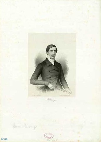 Henrik Stampe (1803-1860), Danish jurist, estate owner and politician, MP